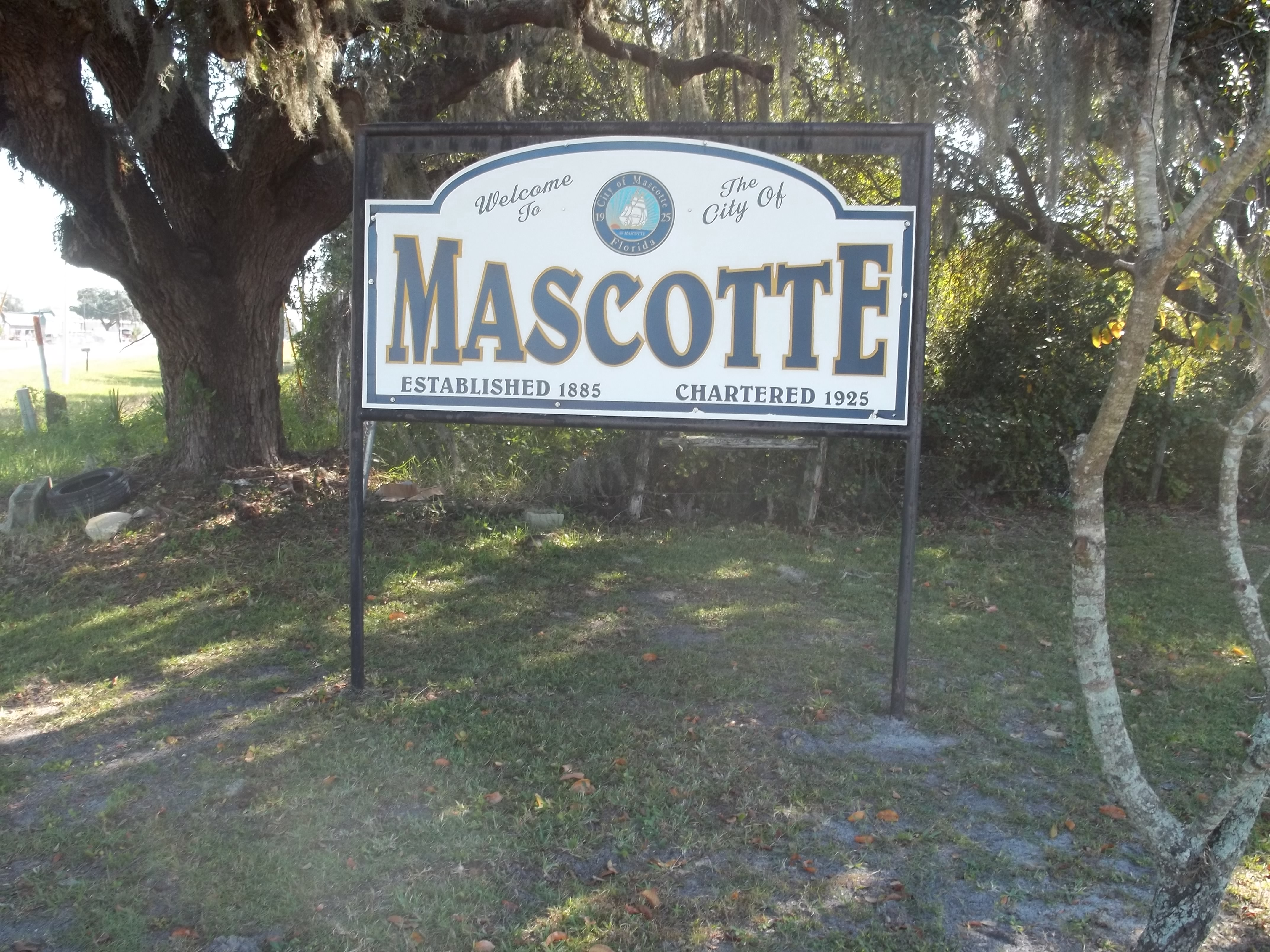 Mascotte, Florida: Welcome sign on west side of town, on SR 50.